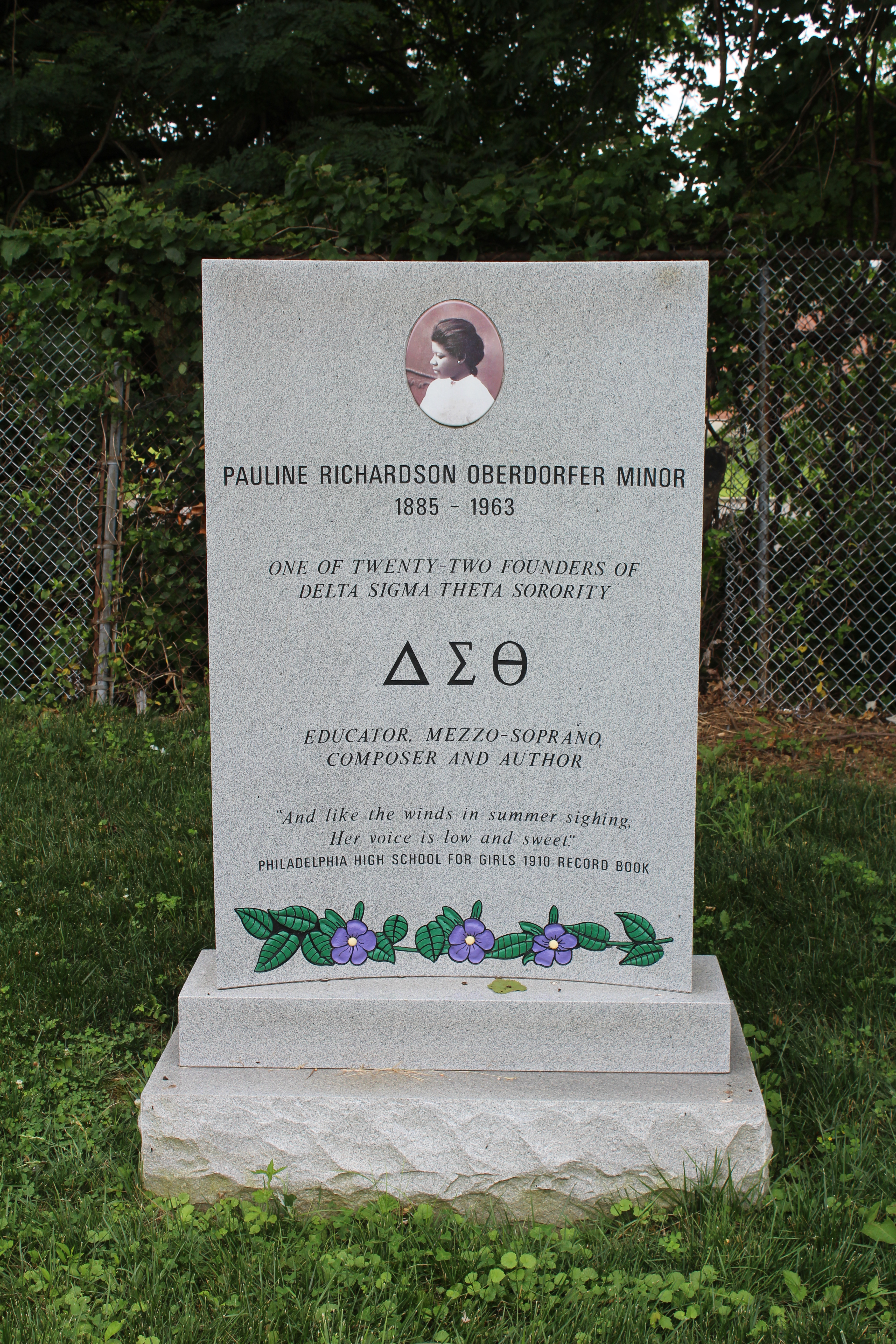 Pauline Richardson Oberdorfer Minor gravestone in Eden Cemetery in Collingdale, Pennsylvania. Photo taken July 2019.